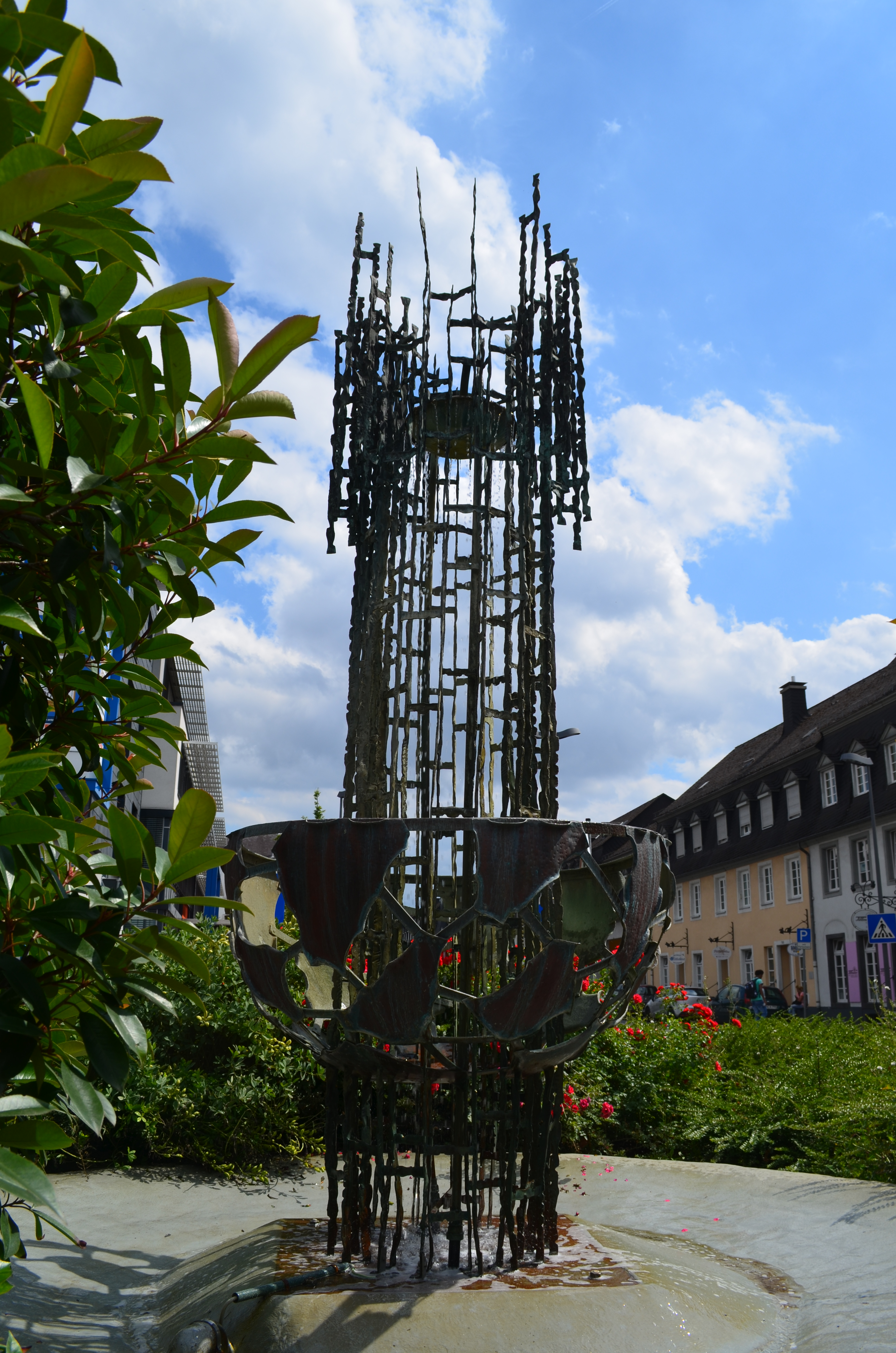 Fountain created by Werhand-Brunnen, located in the city center of Neuwied, Rhineland-Palatinate